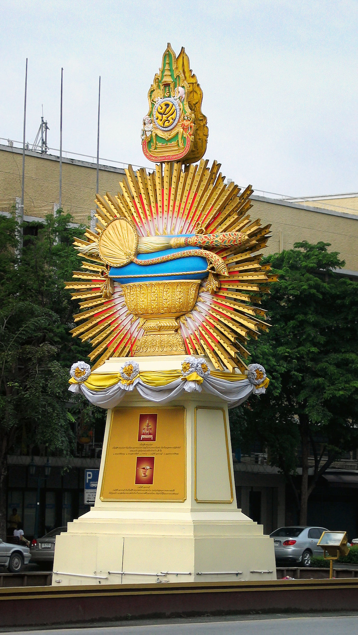 "The Royal Fan" and "The Royal Flywhisk", one of several "exhibits" showing the Royal Thai Regalia on Ratchadamnoen Avenue in Bangkok in honour of the 60th anniversary of H.M. King Bhumibol Adulyadej's ascension to the throne (9 June 2006).